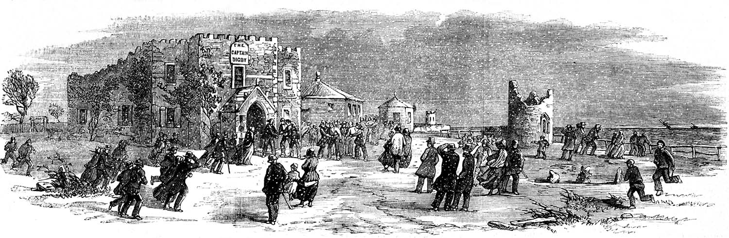 The rescued crew of the Northern Belle at The Captain Digby, in Kingsgate, Kent, England, 5 January, 1857